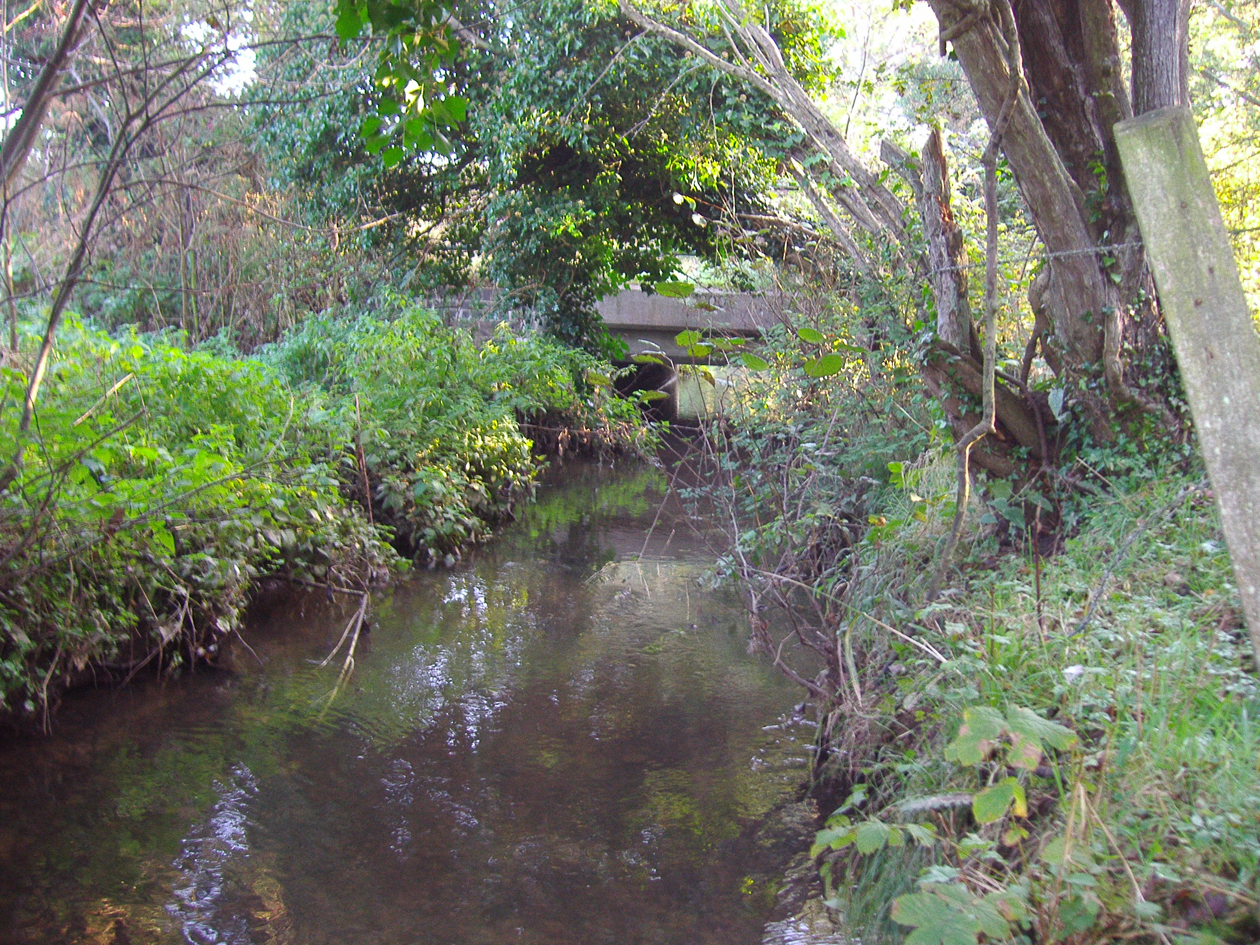 A Photograph of Scarrow Beck at Hanworth Common, Taken on the 23rd October 2007 By stavros1